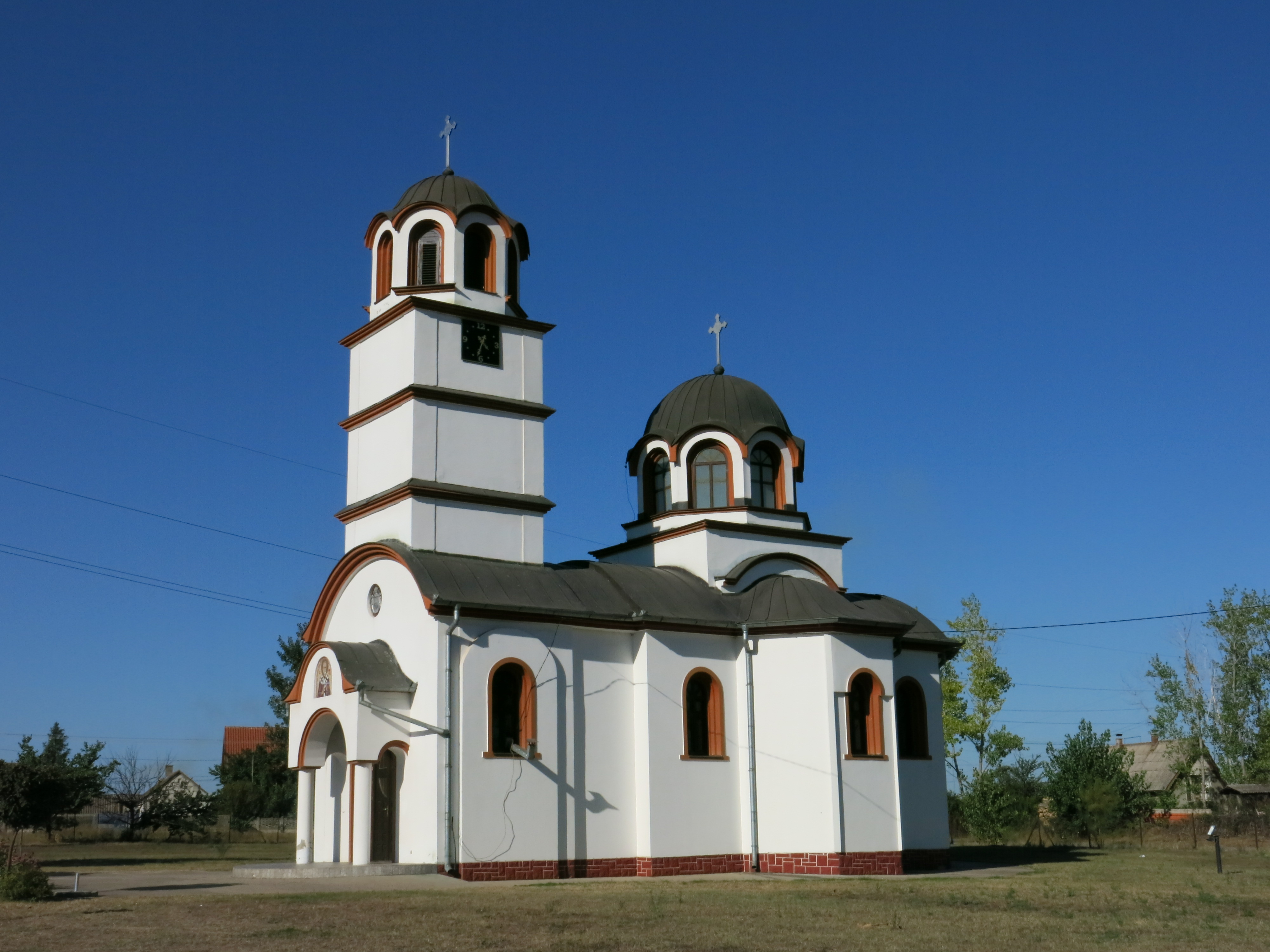 Ralja, Church of Saint Nicholas